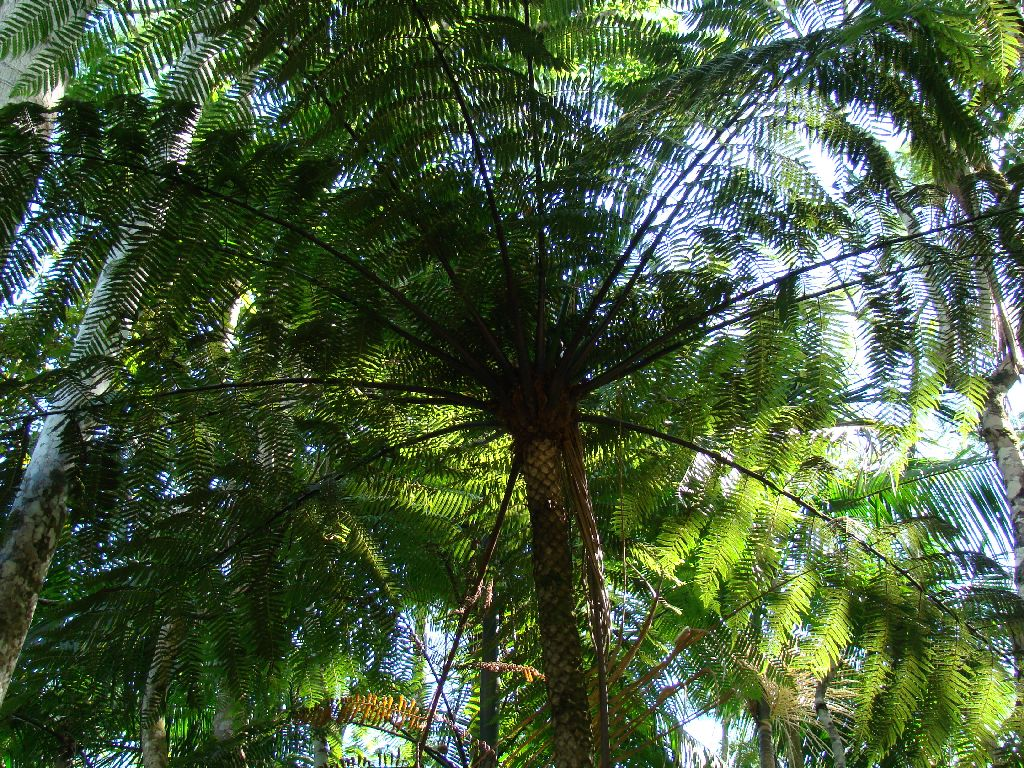 Dicksonia sellowiana picture, also known as Xaxim.